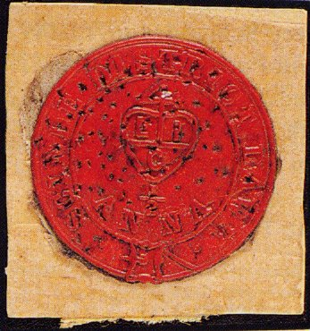 1/2 (half anna) Scinde District Dawk, or Sindh Post, embossed red sealing wax wafer stamp